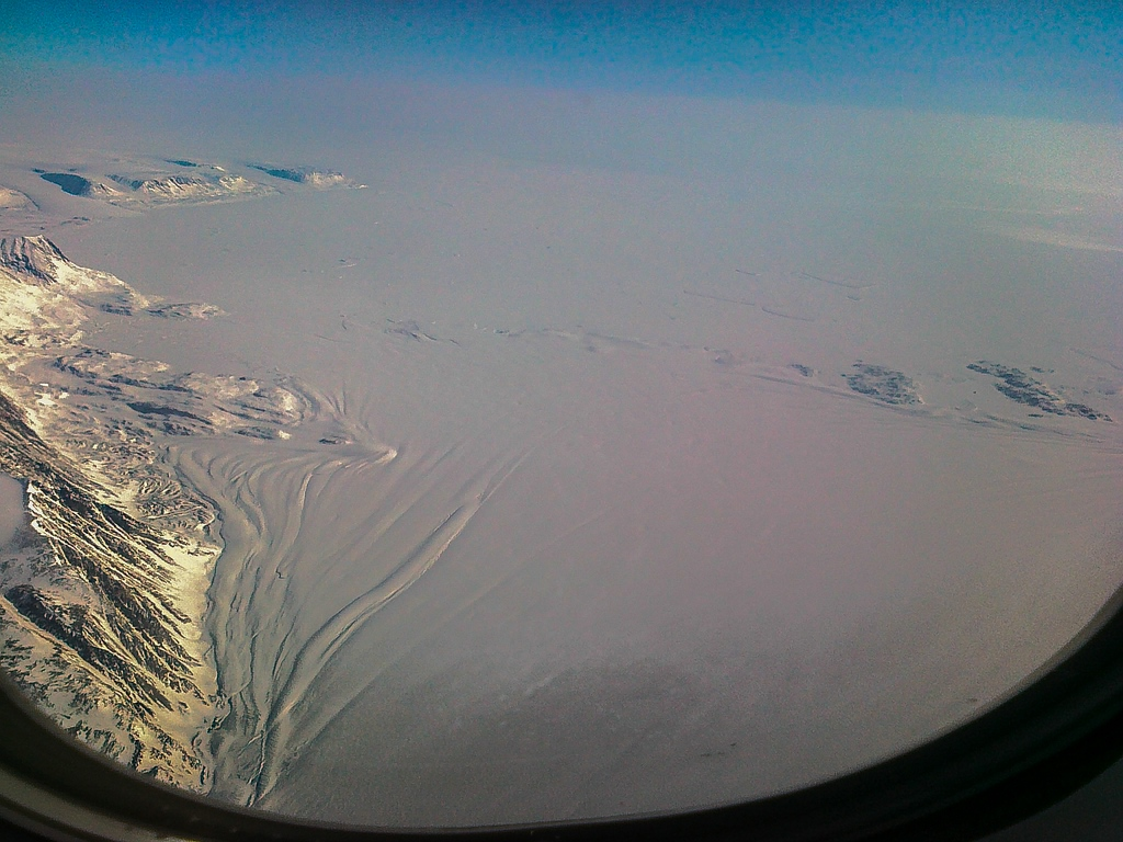 5th May 2012: View of the terminus of the Nioghalvfjerdsbrae glacier with the southwestern end of Hovgaard Island and Cape Adolf Jensen - North Polar flight with Air Berlin - Flight back to Northeast Greenland (Photographer: Basti, Editor: Hedwig)